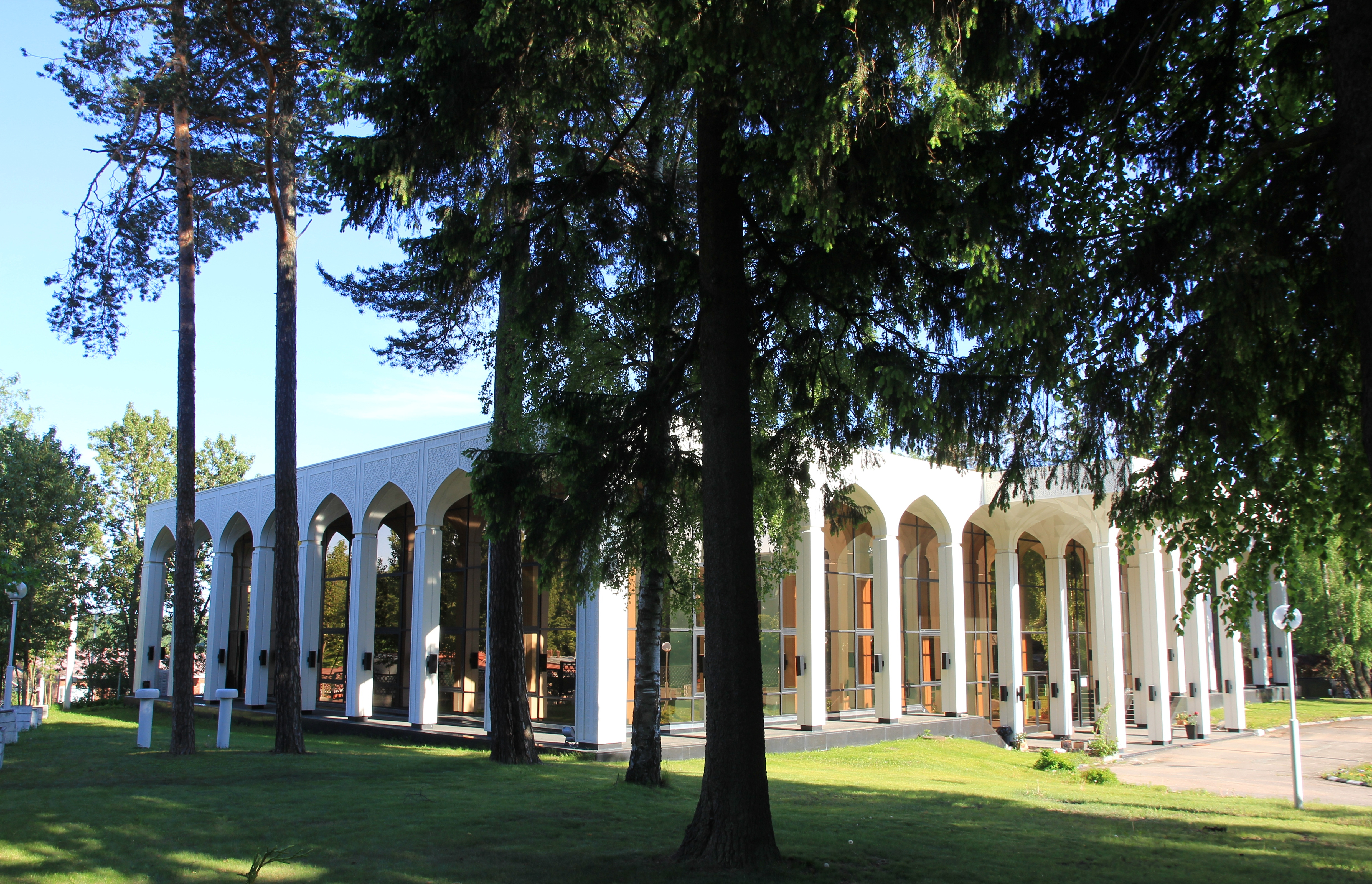 Iraqi embassy in Kulosaari island in Helsinki, address Lars Sonckin tie 2.